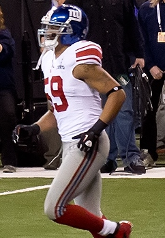 New York Giants linebacker Michael Boley enters the field for Super Bowl XLVI.